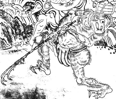 Koinryō (虎隱良, a Inro monster) from the Hyakki Tsurezure Bukuro (百器徒然袋)